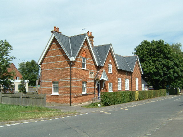 Culham School. In the bottom right corner of the crid square